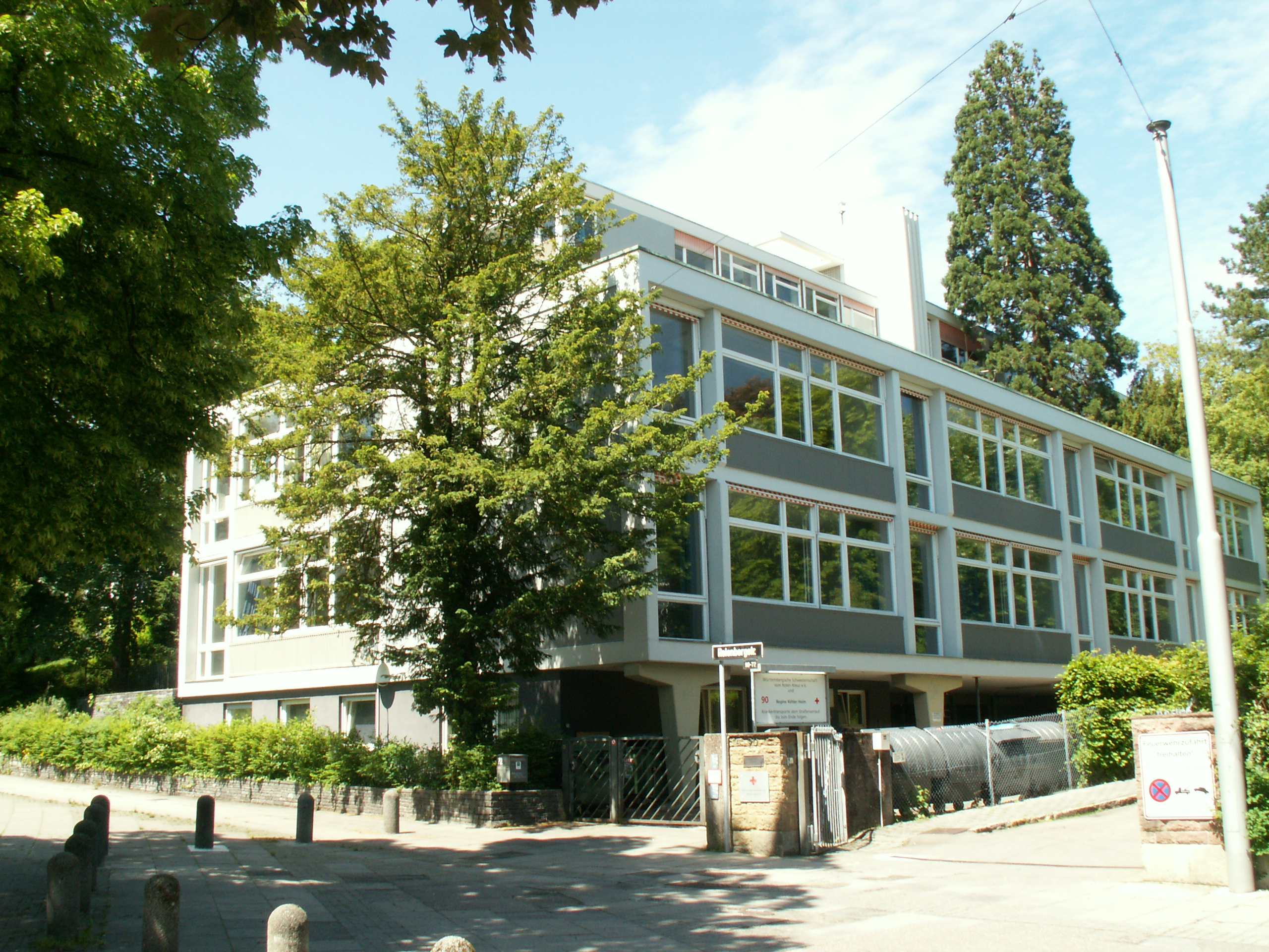 Eberhard-Ludwig-Gymansium in Stuttgart, Germany, seen from the Herdweg